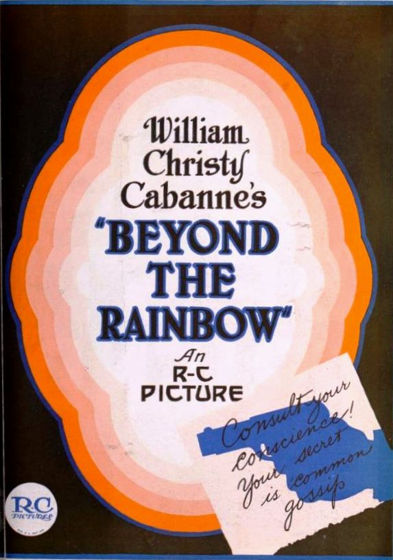 Advertisement for the American drama film Beyond the Rainbow (1922), from the insert at page 10 of the March 25, 1922 Exhibitors Herald.